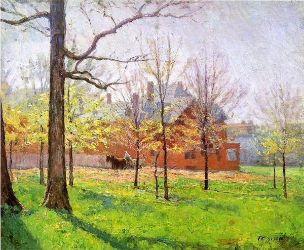 Talbott Place